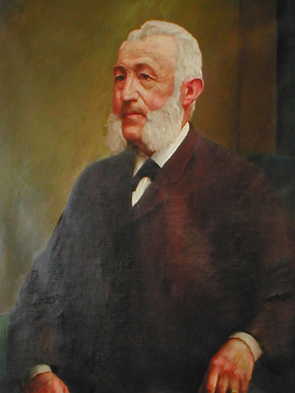 Georg Heinrich von Pancug (1717–1783), mayor of Heilbronn, Germany. Contemporary painting